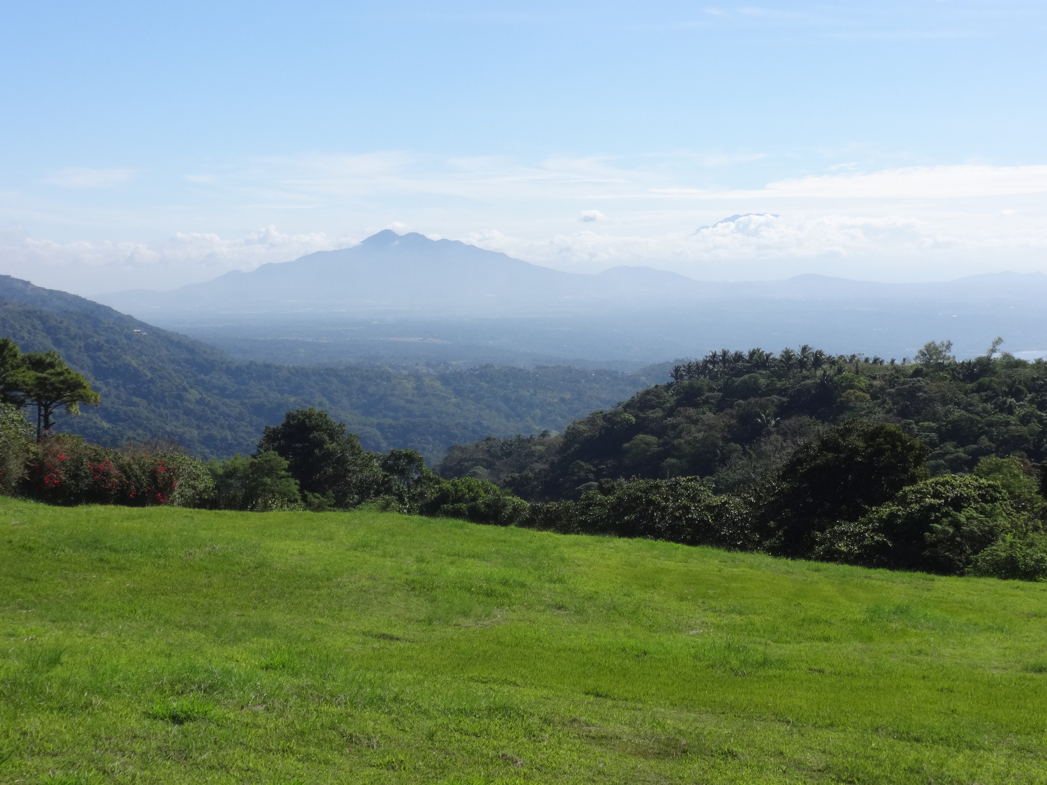 View of Mount Makiling from Tagaytay City, Cavite